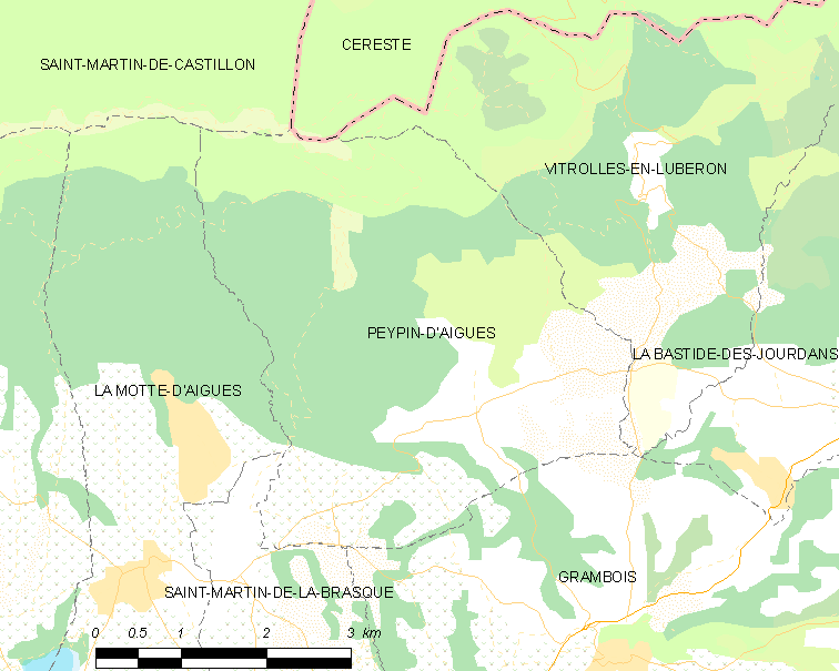 Map of French municipality Peypin-d'Aigues